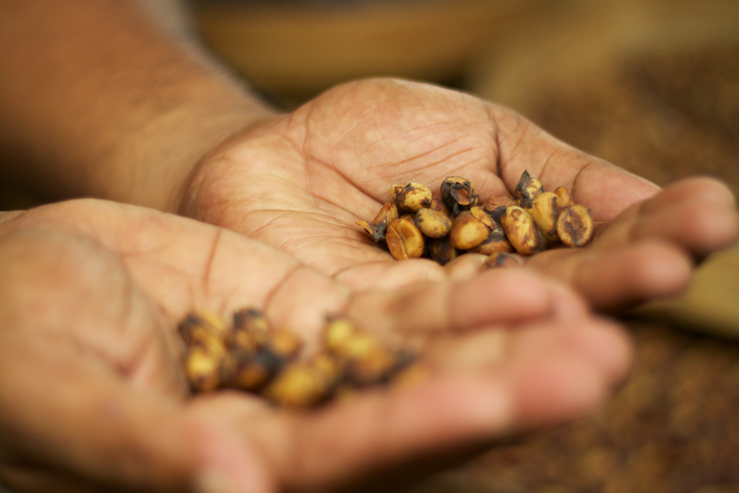 Beans processed by the luwak civet. The luwak, the Asian palm civet is responsible for the famous lukak coffee, the most exclusive coffee in the world. The nocturnal lukak civet eats the ripe coffee cherries and the beans come out in their dung. The 2 days spent in the civet's digestion track partially ferments and processes the coffee beans and gives them their unique flavour. The beans are foraged by hand in the forest from wild civet droppings. In a day a lucky worker might find a handful of less than a dozen beans. After collecting, at farms like these the beans are washed in boiling water, sun dried and then hand-roasted over a fire to produce truly unique and expensive coffee.